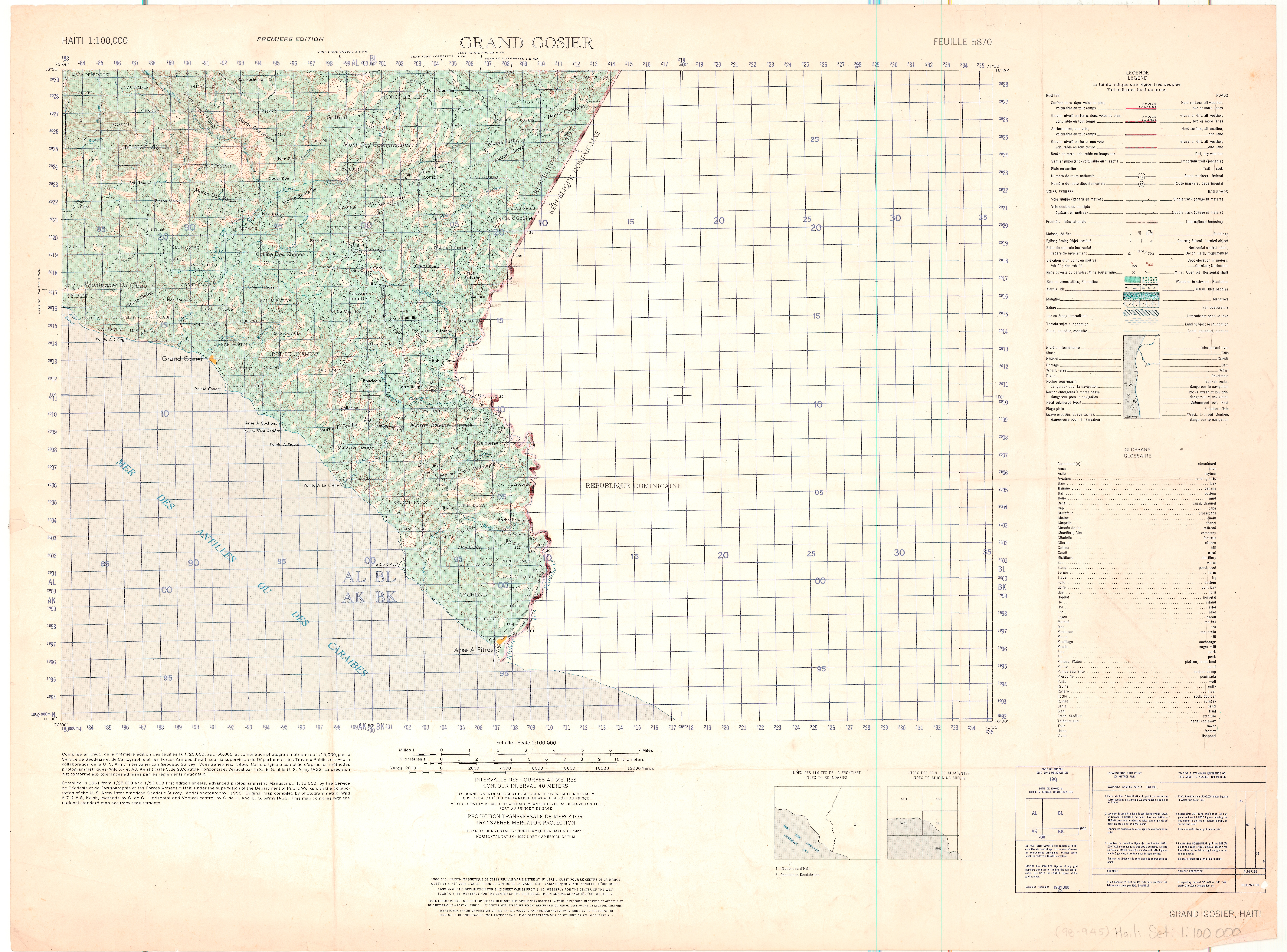 Some maps lack series statement. Some maps printed by Army Map Service, Corps of Engineers. Standard maps series designation: Series E632 Includes index to adjacent sheets, glossary, explanatory chart. Some maps have index to boundaries. Language: English and French. Relief shown by contours and spot heights.